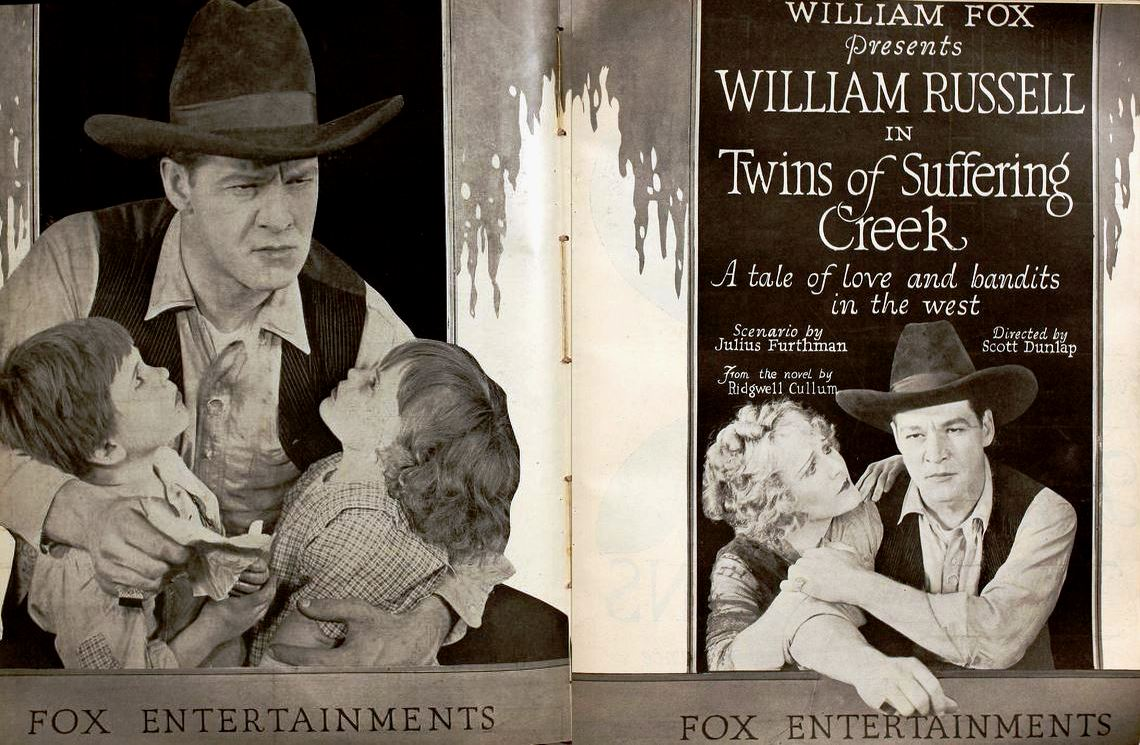 Ad for the American western film The Twins of Suffering Creek (1920) with Louise Lovely and William Russell and child actors Malcolm Cripe and Helen Stone, on pages 4586 and 4587 of the June 5, 1920 Motion Picture News.